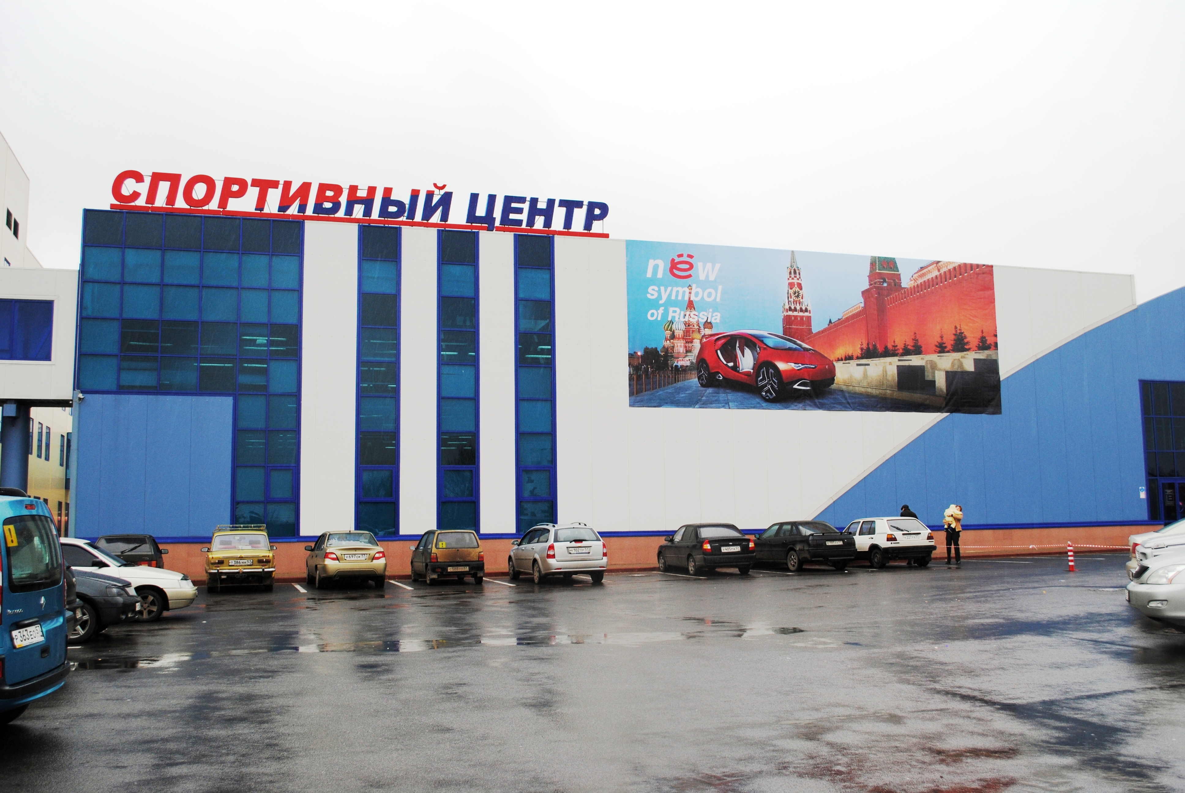 Yo-mobil